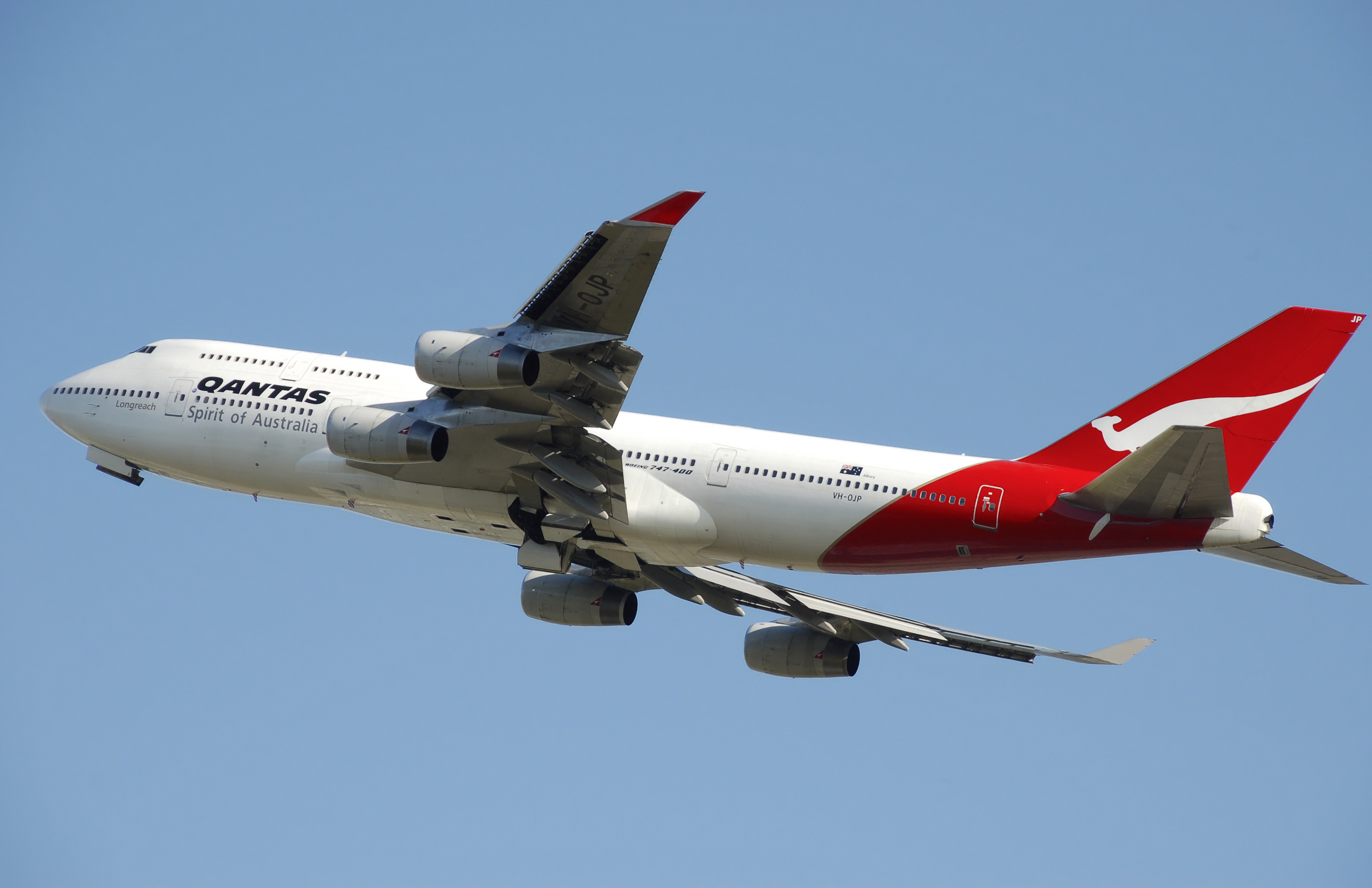 Qantas Boeing 747-400 (VH-OJP) takes off from London Heathrow Airport, England.